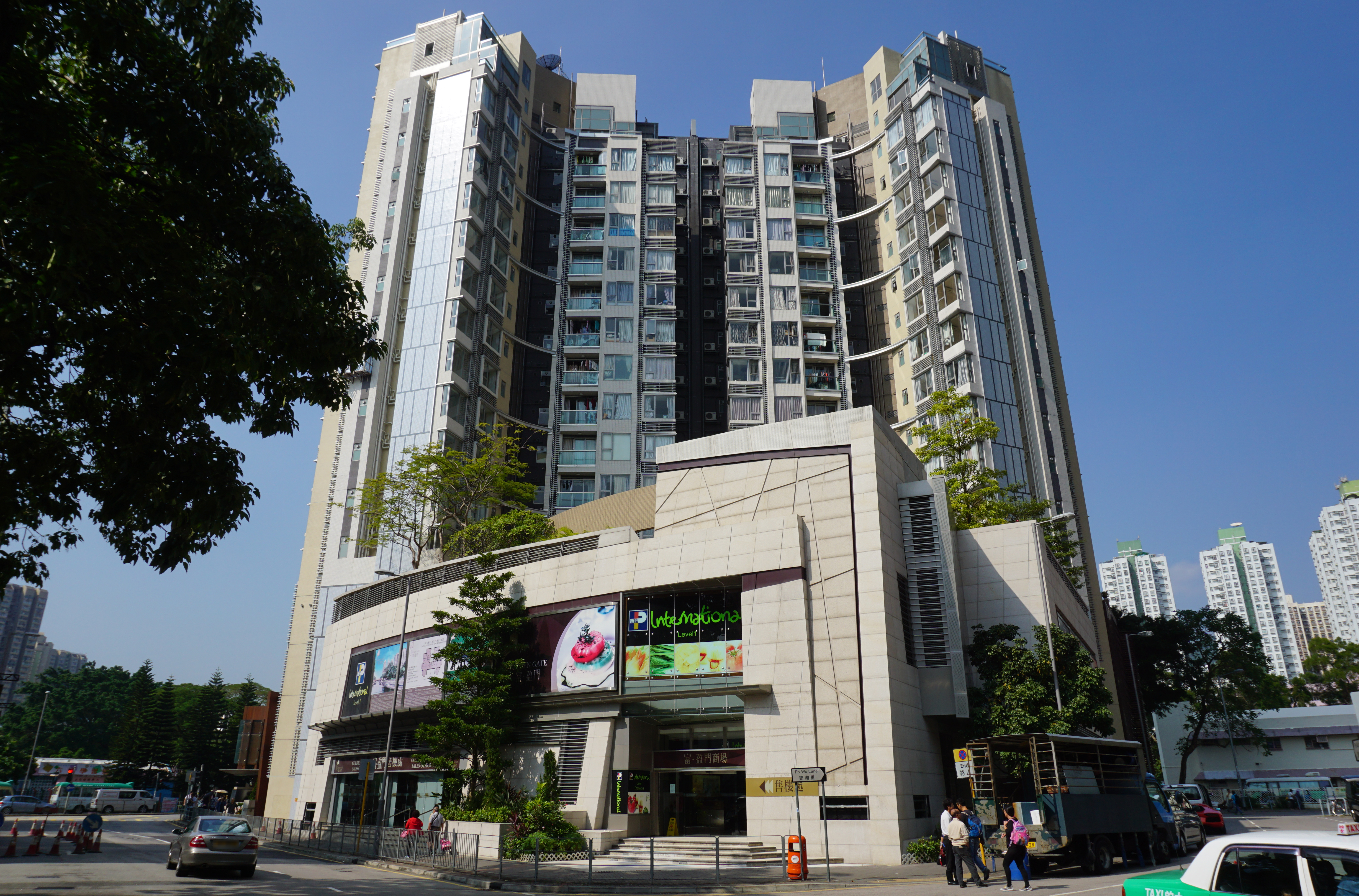 The Golden Gate in Tai Po, Hong Kong.